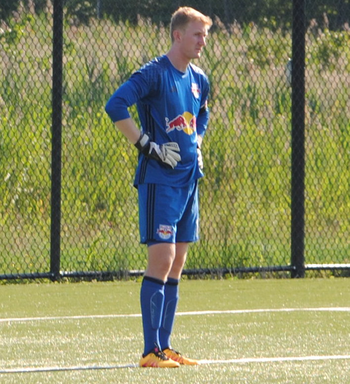 Meara RBNY II